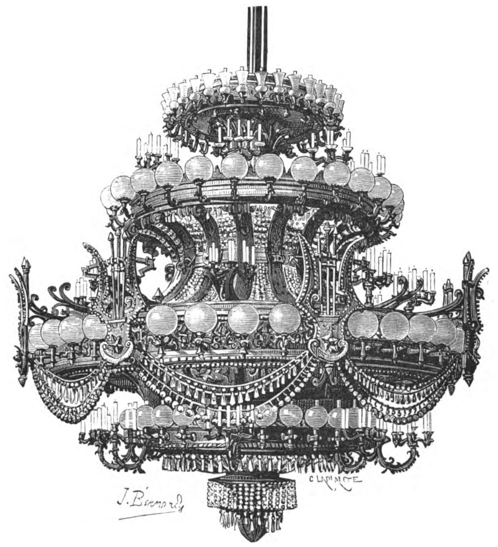 Engraving of the main auditorium chandelier of the Paris Opera's Palais Garnier